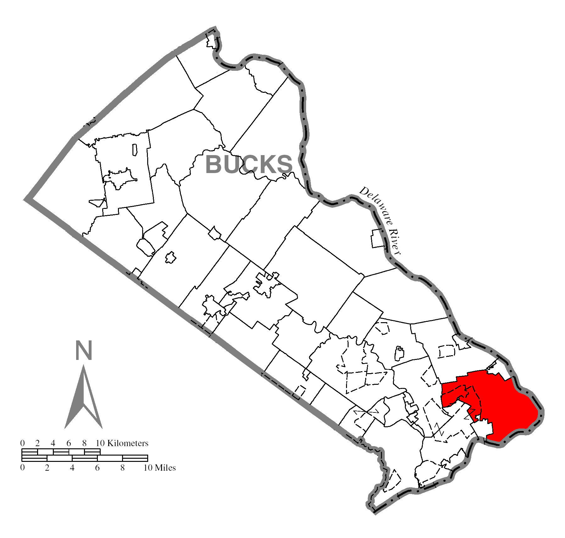 A map of Bucks County showing Falls Township, Pennsylvania (alternate) highlighted on the map.